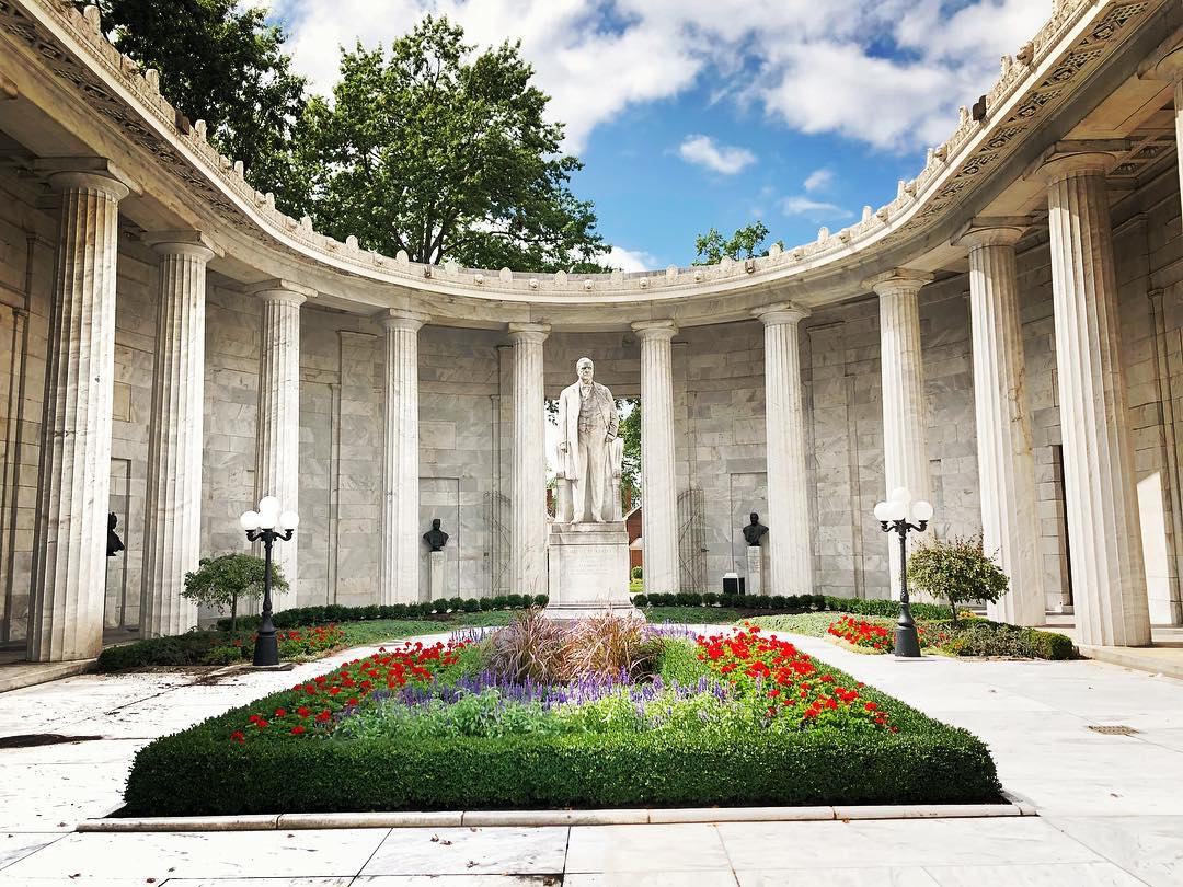 The Court of Honor displays the Massey - Rhind sculpture of President William McKinley.